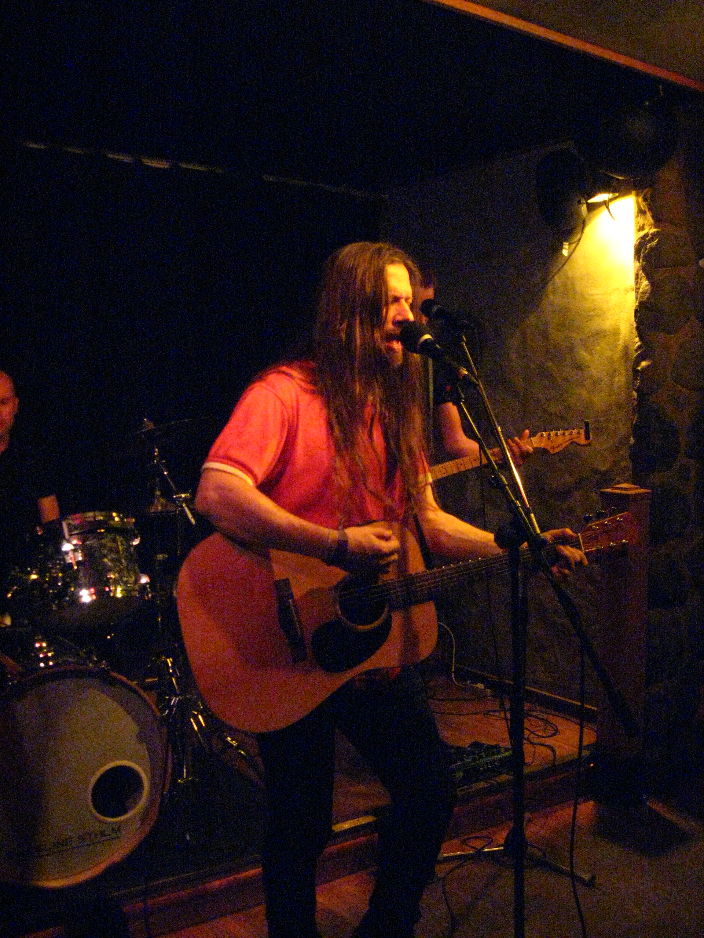 Johan Piribauer playing at The Big Ben.